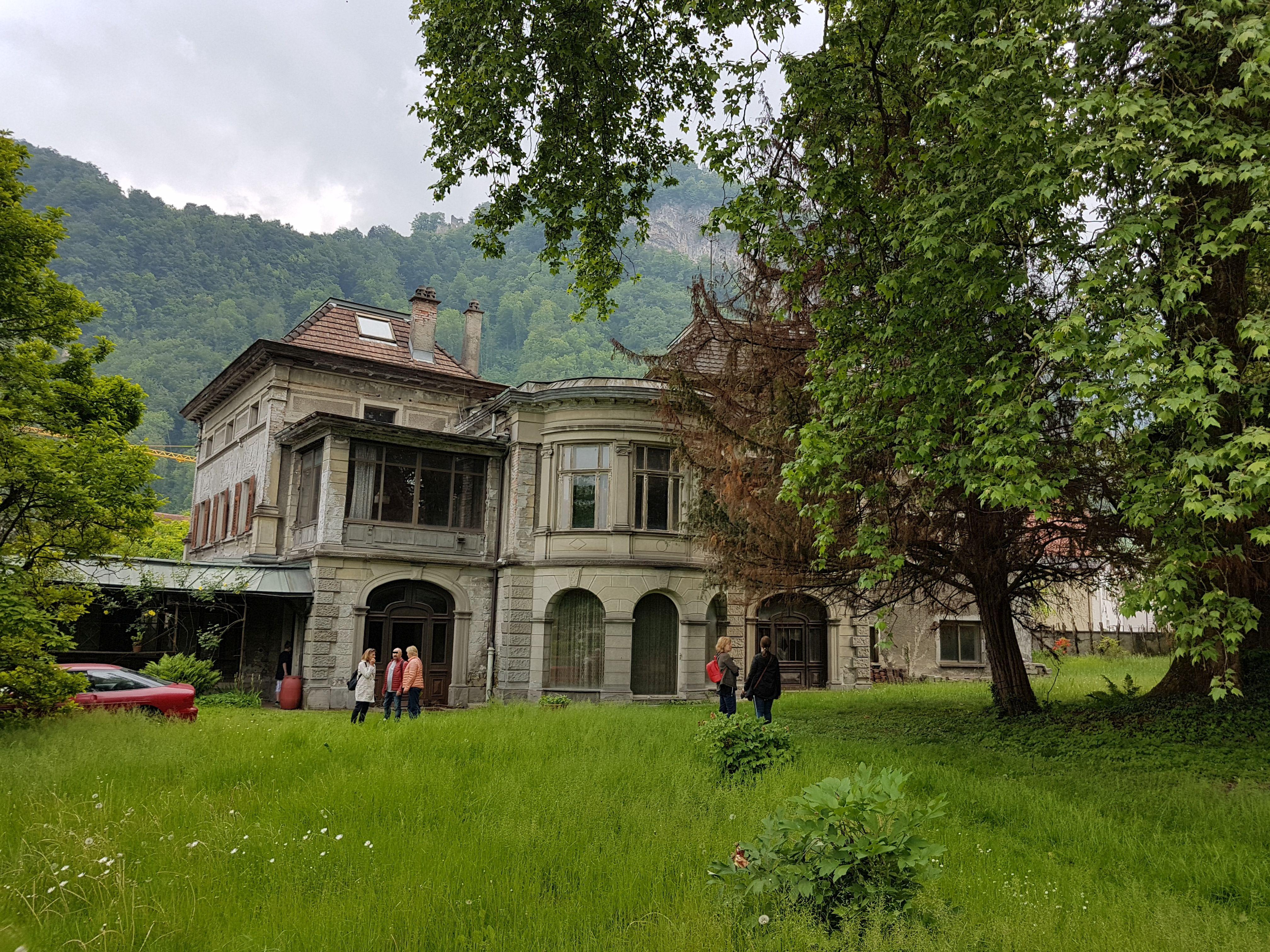 Part of the Villa Ivan Rosenthal, Radetzkystraße No. 1 in Hohenems, Vorarlberg, Austria. Built in 1890, main building with hipped and cross-gabled roof, cube-shaped with klassizisierender entrance section, side wings, Wirtschaftstrakt with half-timbered.